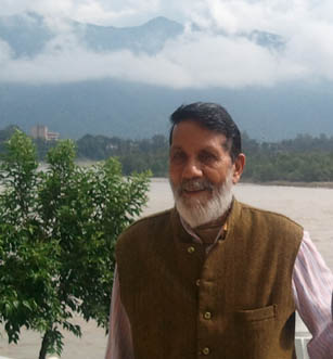 Photo of Chandi Prasad Bhatt